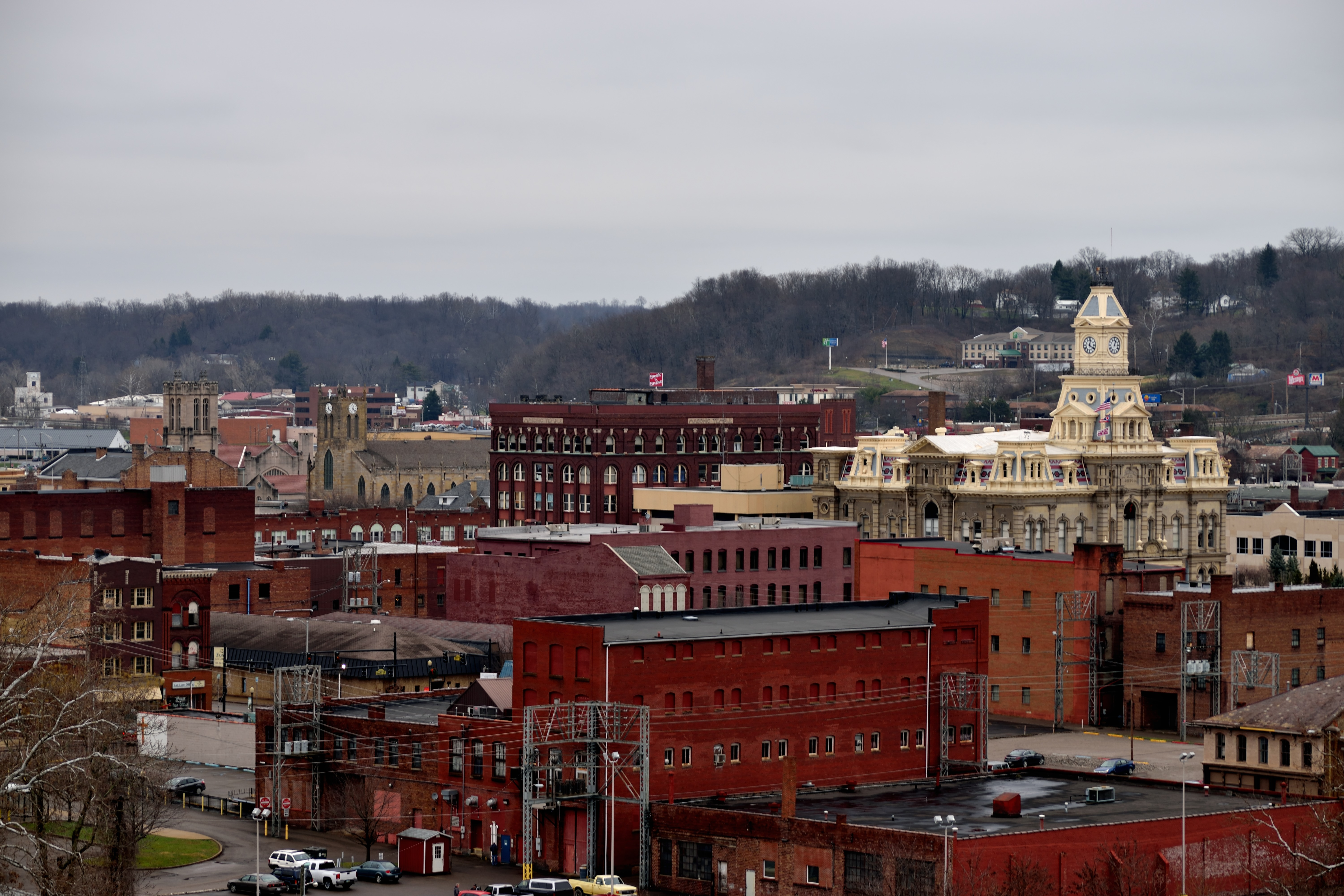 View of the Courthouse from Putnam Hill Park